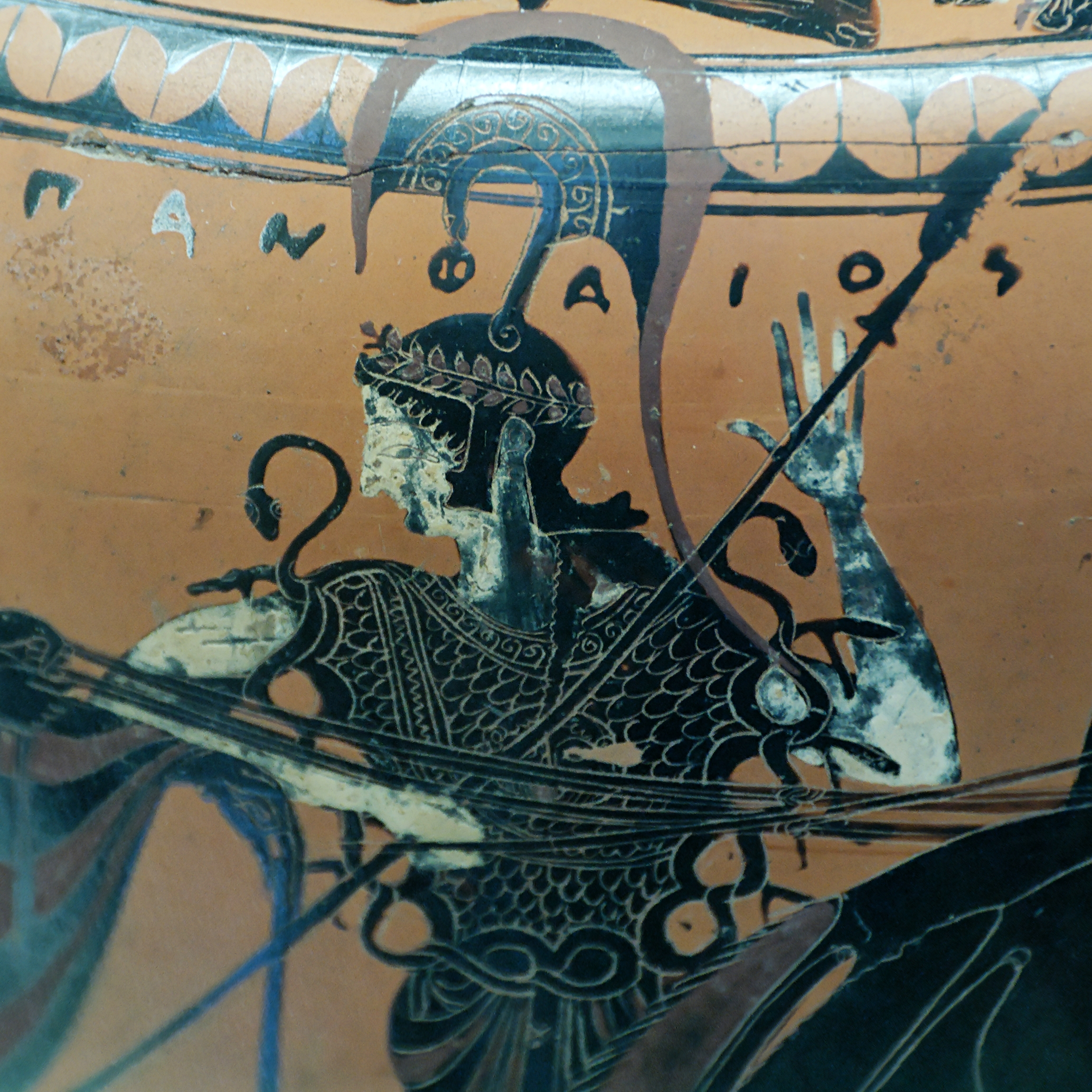 Athena wearing the aegis, detail from a scene representing Herakles and Iolaos escorted by Athena, Apollo and Hermes. Belly of an Attic black-figured hydria.